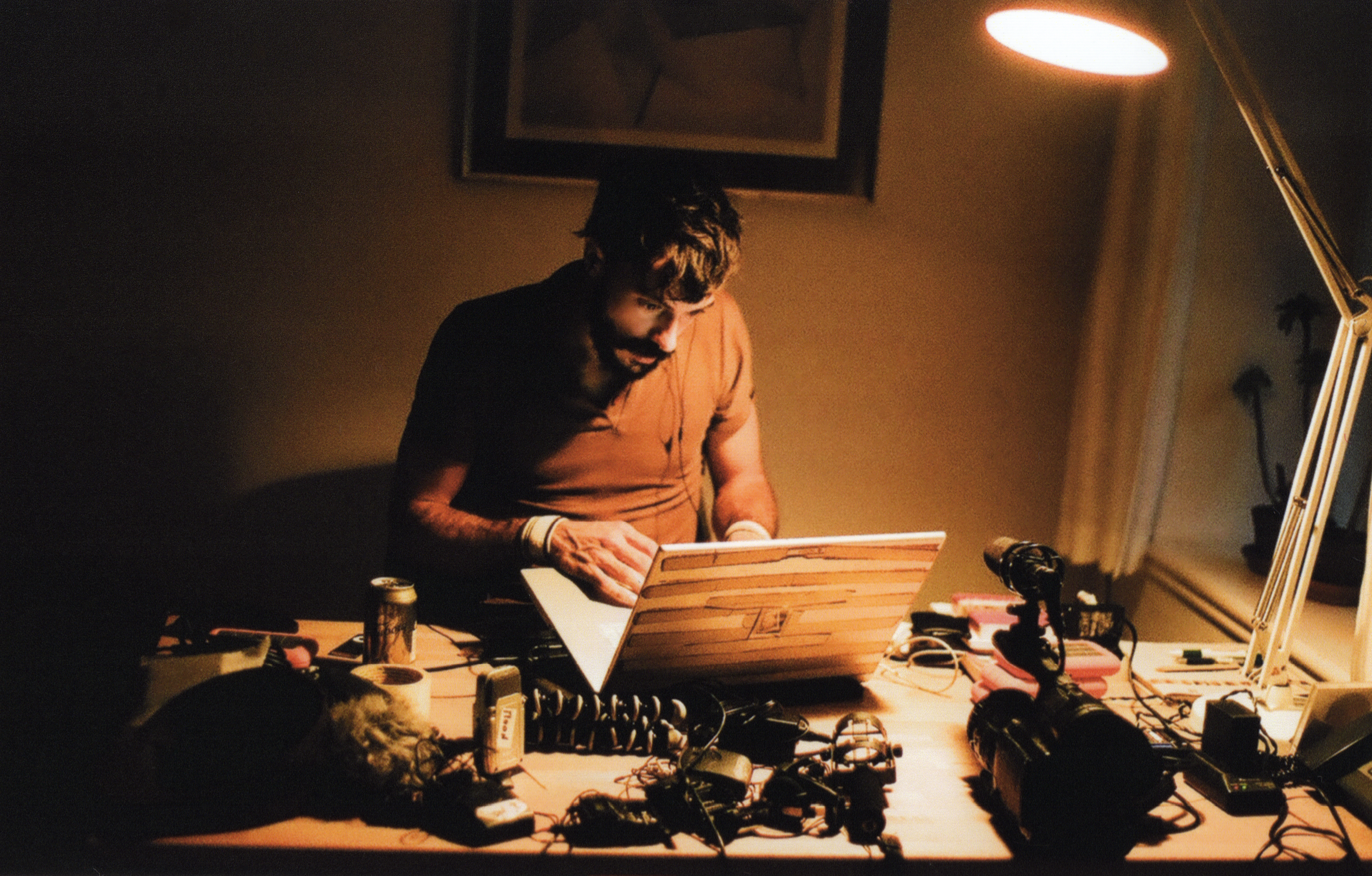 Vincent Moon